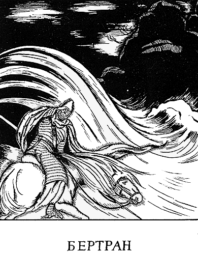 Nikolay Dmitrevsky. Bertran. Illustration to "The Rose and the Cross" by Alexander Blok. Lithography, 1922.